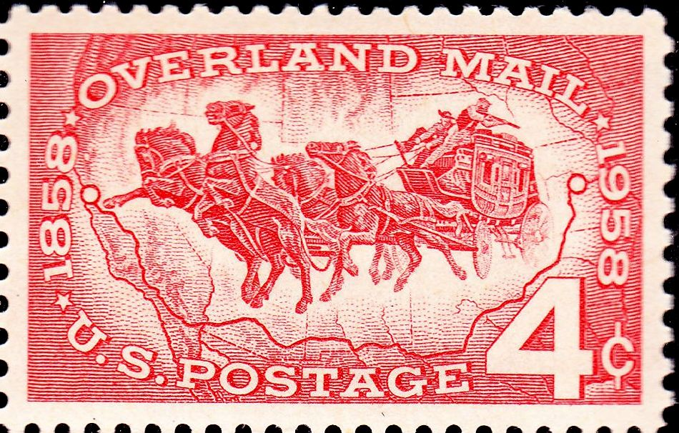 US Postage stamp, overland mail issue of 1958, 4c, red